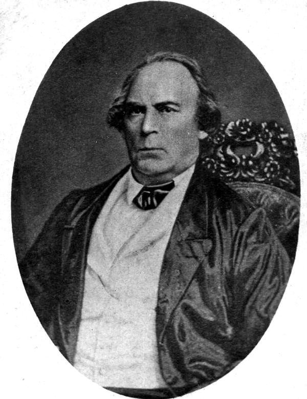 Richard Keith Call, former territorial governor of Florida.